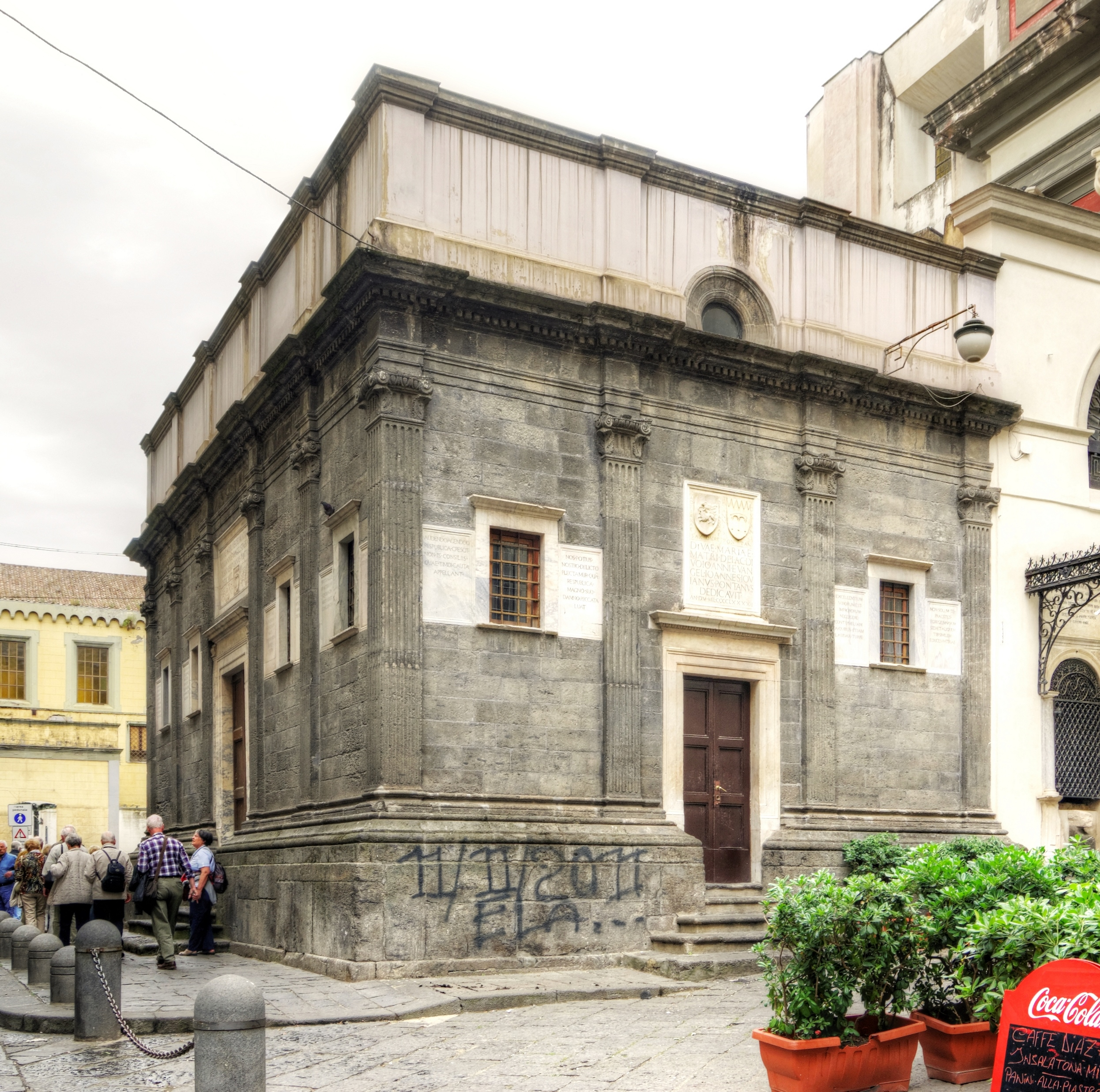 Naples, Cappella Pontano